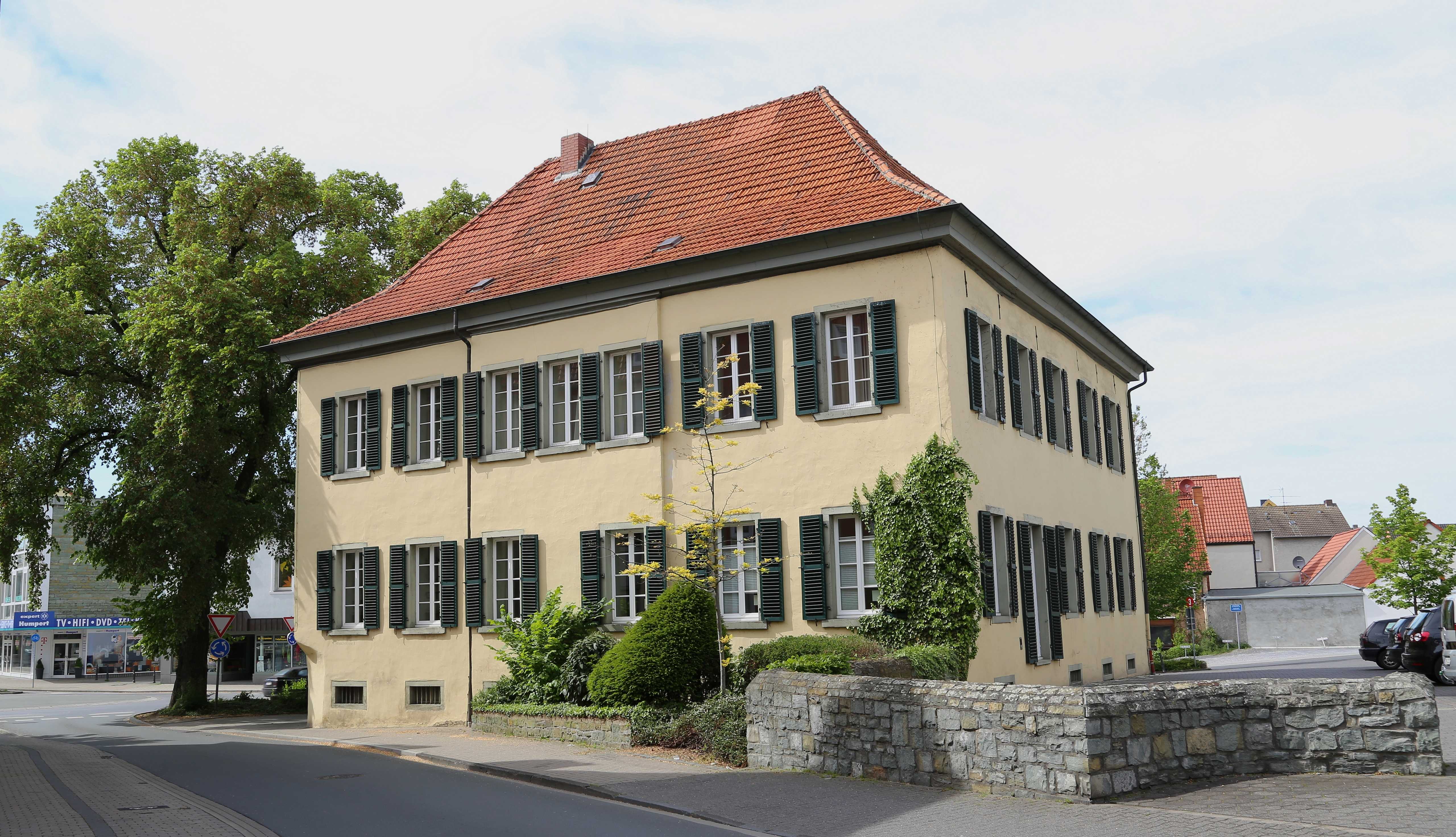 Von Papen House (Haus von Papen) in Werl, Kreis Soest, North Rhine-Westphalia, Germany. Since 1980 it inhabitates the city's Public Library (Stadtbücherei).